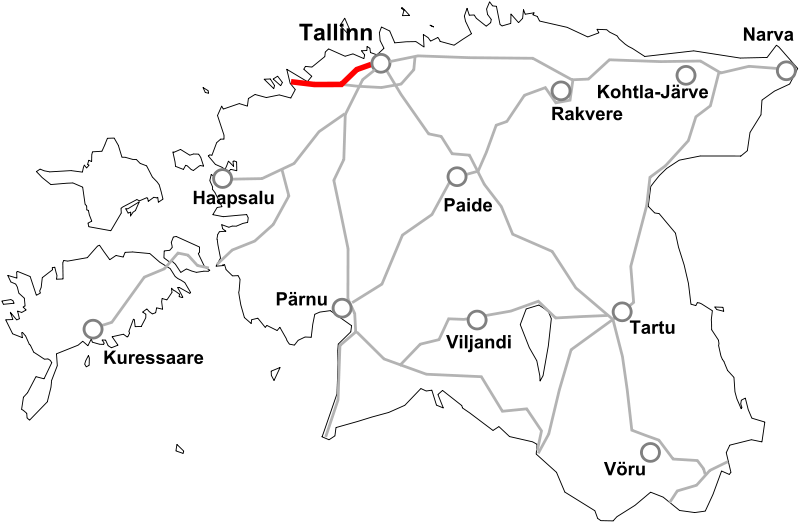 Map of Estonian national road 8, white background. Bigger cities marked.